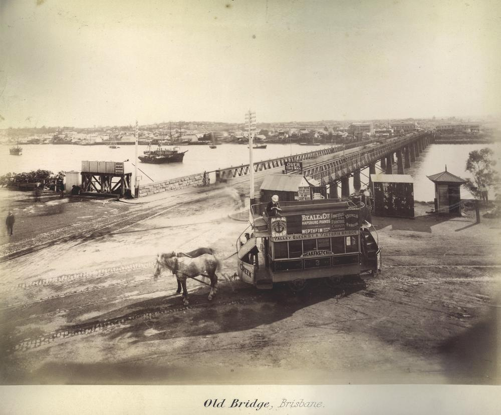 Horse drawn tram at the northern end of the first permanent Victoria Bridge in Brisbane, Australia